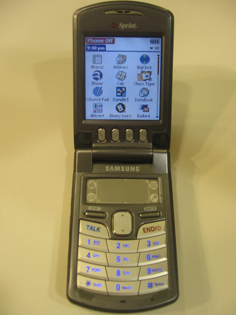 View of open Samsung SPH-i500